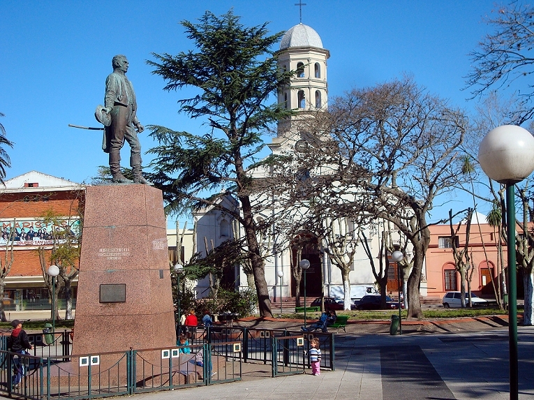 The statue of Artigas and the church of Pando in the central square of Pando, Canelones, Uruguay.